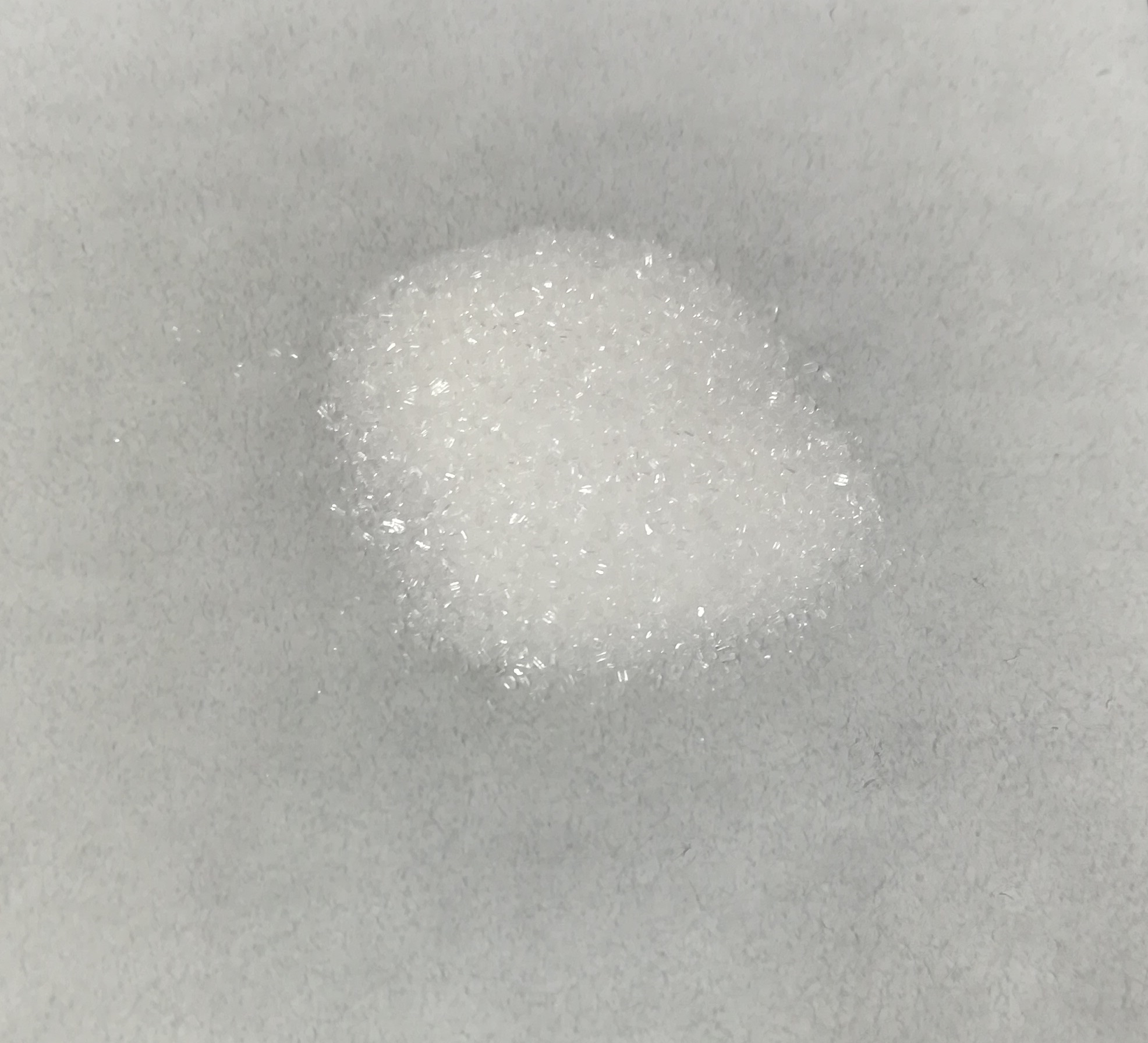 Tetrabutylammonium hexafluorophosphate. Purity: ≥99.0%, for electrochemical analysis.